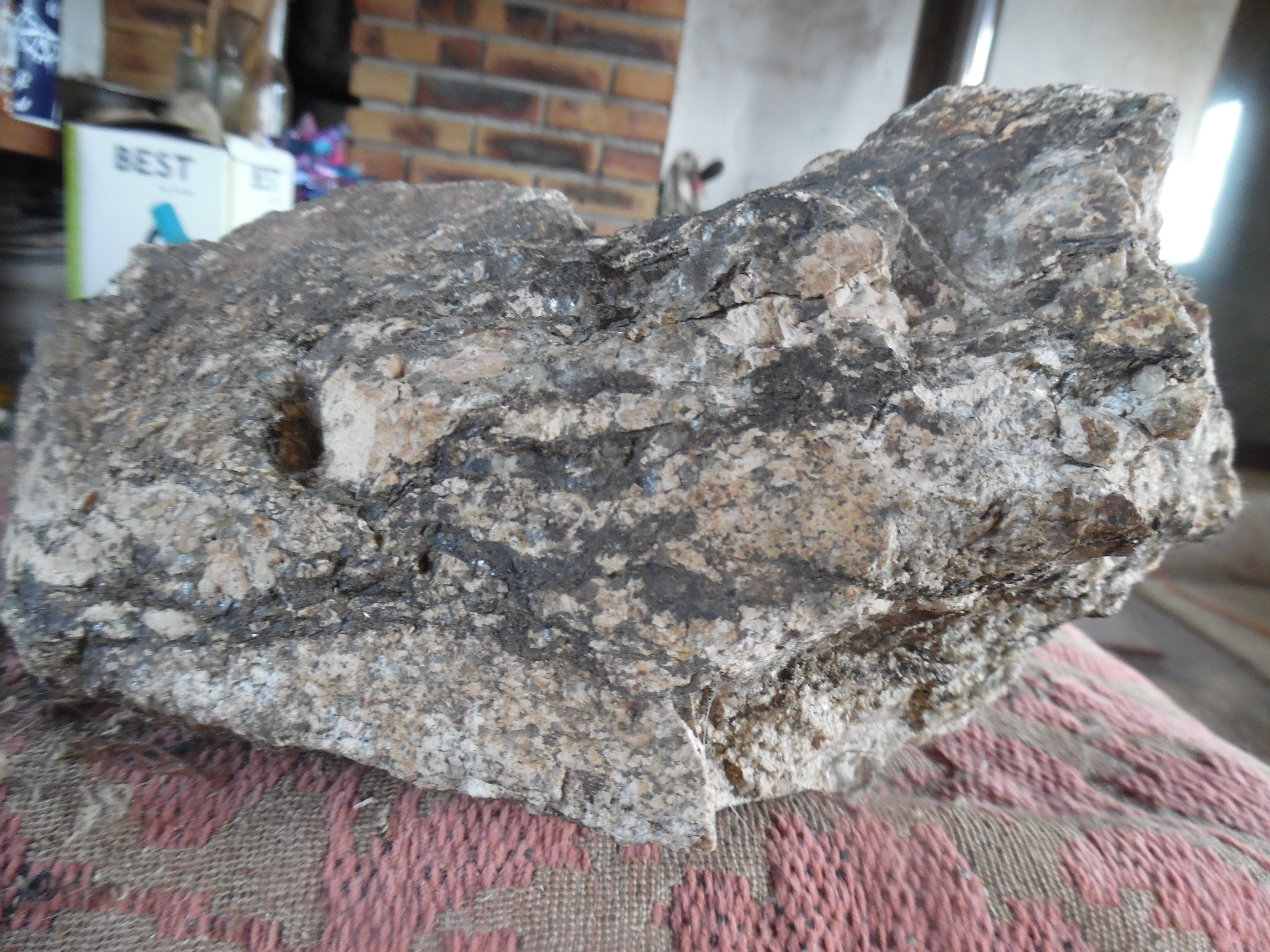 Migmatitic paragneiss (metatexite) from Bussière-Badil, Dordogne, France. Notice the granitoid lenses.